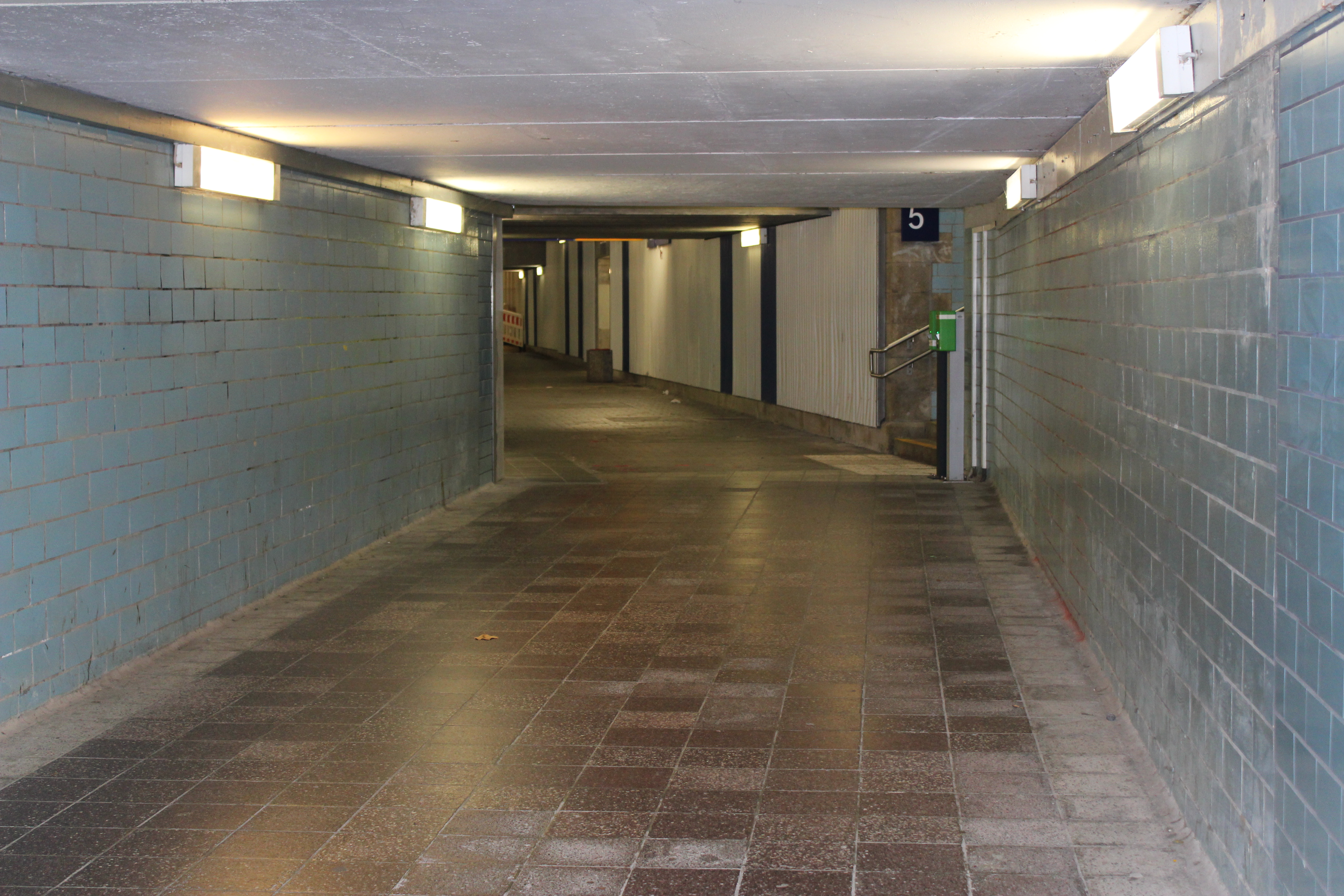 train station Jena-Göschwitz, tunnel